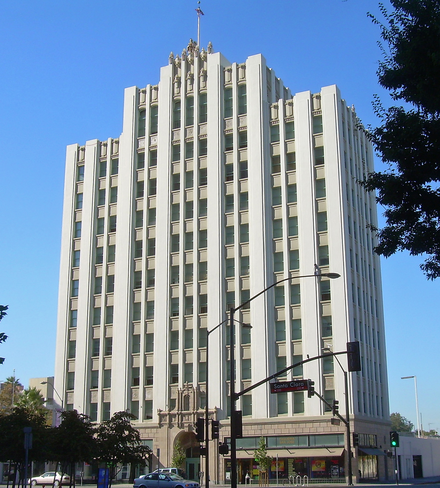 Downtown San Jose, California, built 1928 as the Medico-Dental Building. San Jose Historic Landmark No. 39. Retouched. Vintage Towers